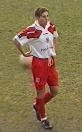 football player Nicky Southall